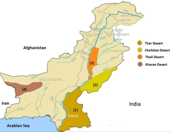 Map of major deserts in Pakistan – I made this image by editing the image File:Map of Deserts in Pakistan.jpg uploaded by Maazarshad45